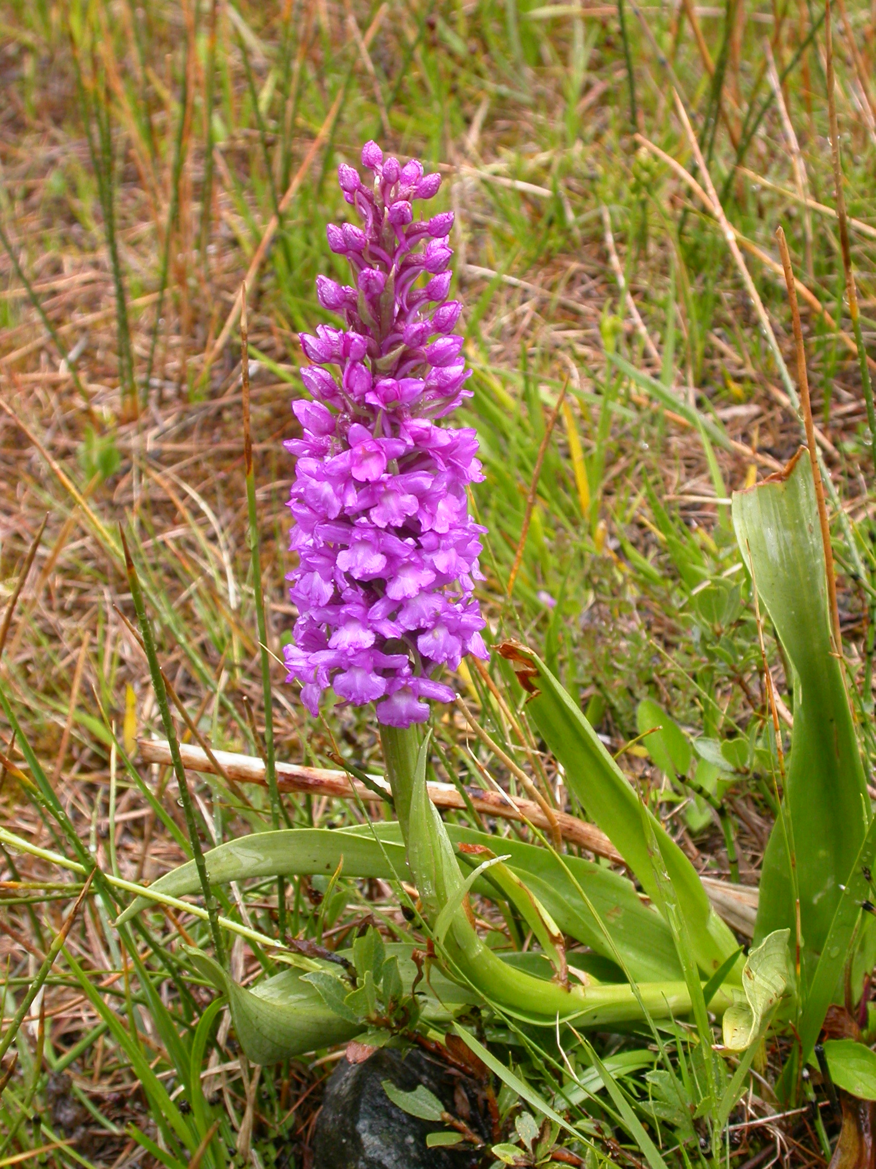 Gymnadenia conopsea Zermatt, Riffelberg (Kanton Wallis, Switzerland), 2500 m Author: Barbara Studer – own photograph Date: 2.08.06